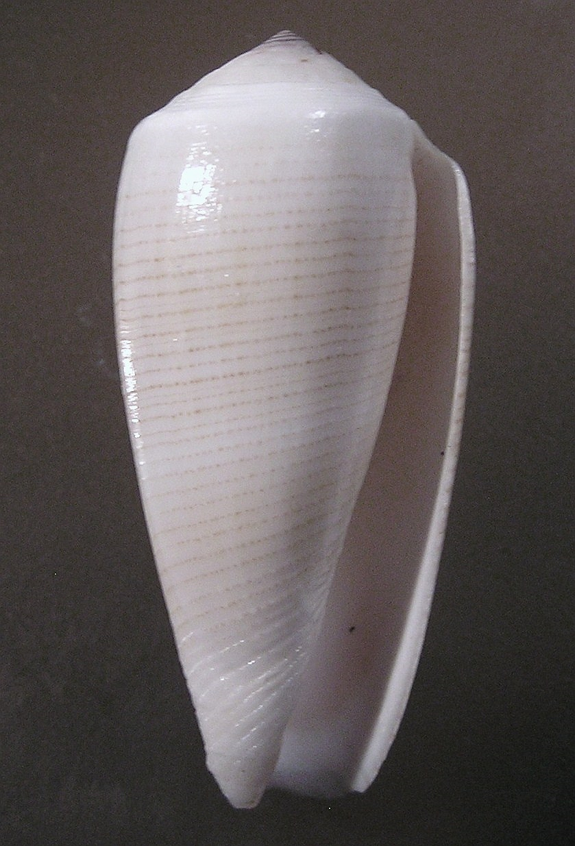 Conus magus Linnaeus, 1758 (synonym: Conus fulvobullatus da Motta, 1982); the Philippines